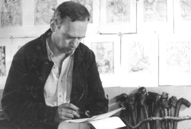 Photograph of the Finnish artist and cartoonist Erkki Tanttu (1907–1985).